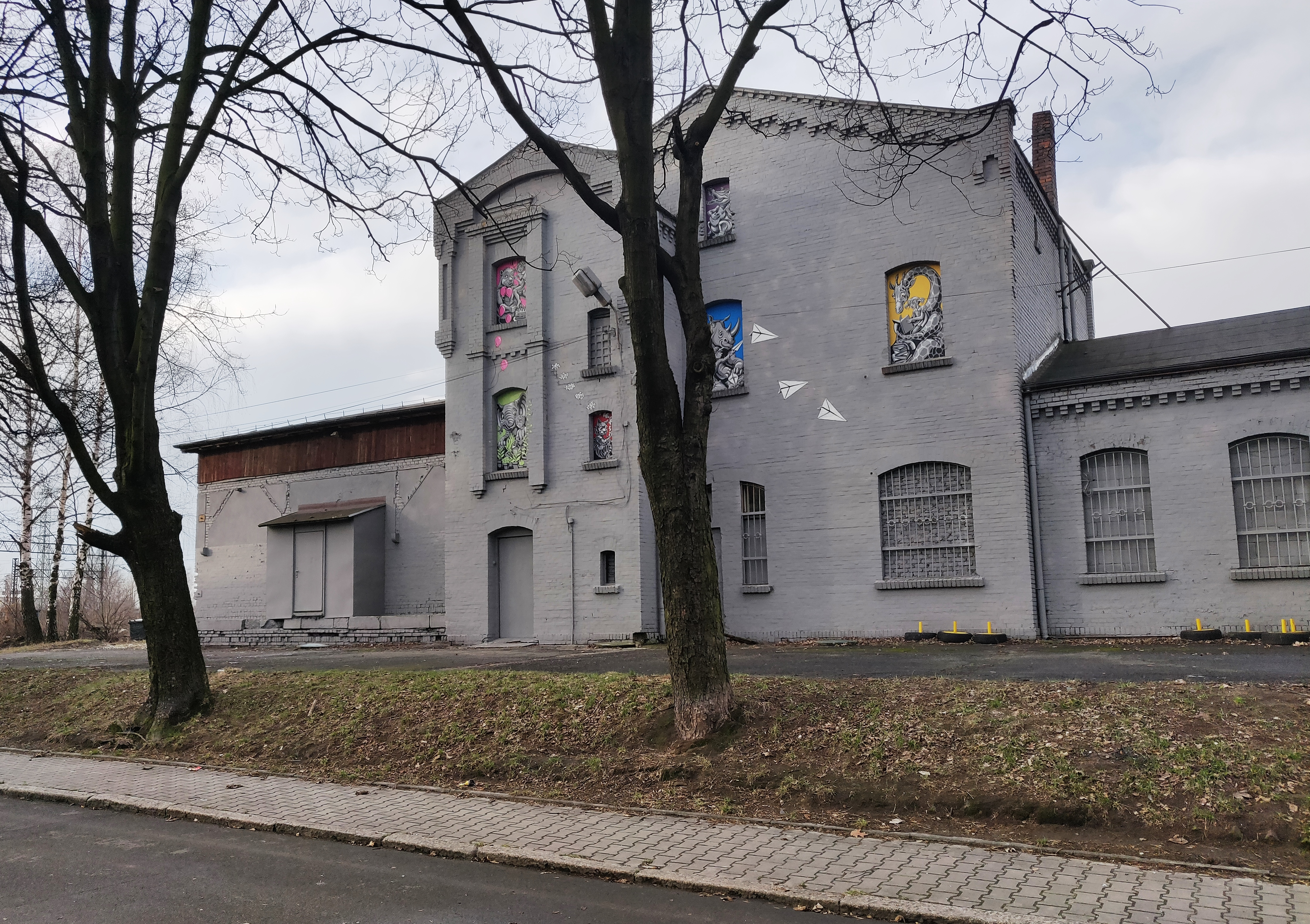 Katowice Dąbrówka Mała train station